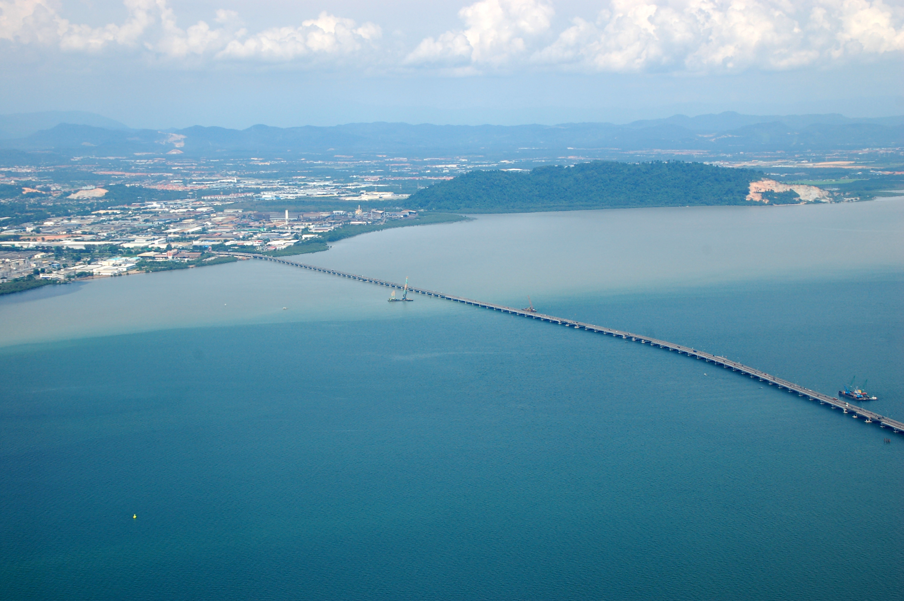 The Penang Bridge in Malisia